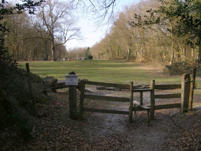 Southern entrance to Ferny Crofts, New Forest Ferny Crofts is a 31 acre camping, training and activity centre owned and managed by Hampshire Scouting, with facilities for up to 500 visitors (according to their website). The main entrance is to the north. This stile provides access from the woodland to the south of the site, although - as the sign says - this is private no access. If you head south out of Ferny Crofts, over this stile, then you will soon reach Ferny Crofts Bog.